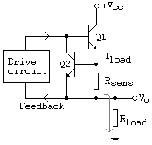 Typical BJT current limiting scheme.